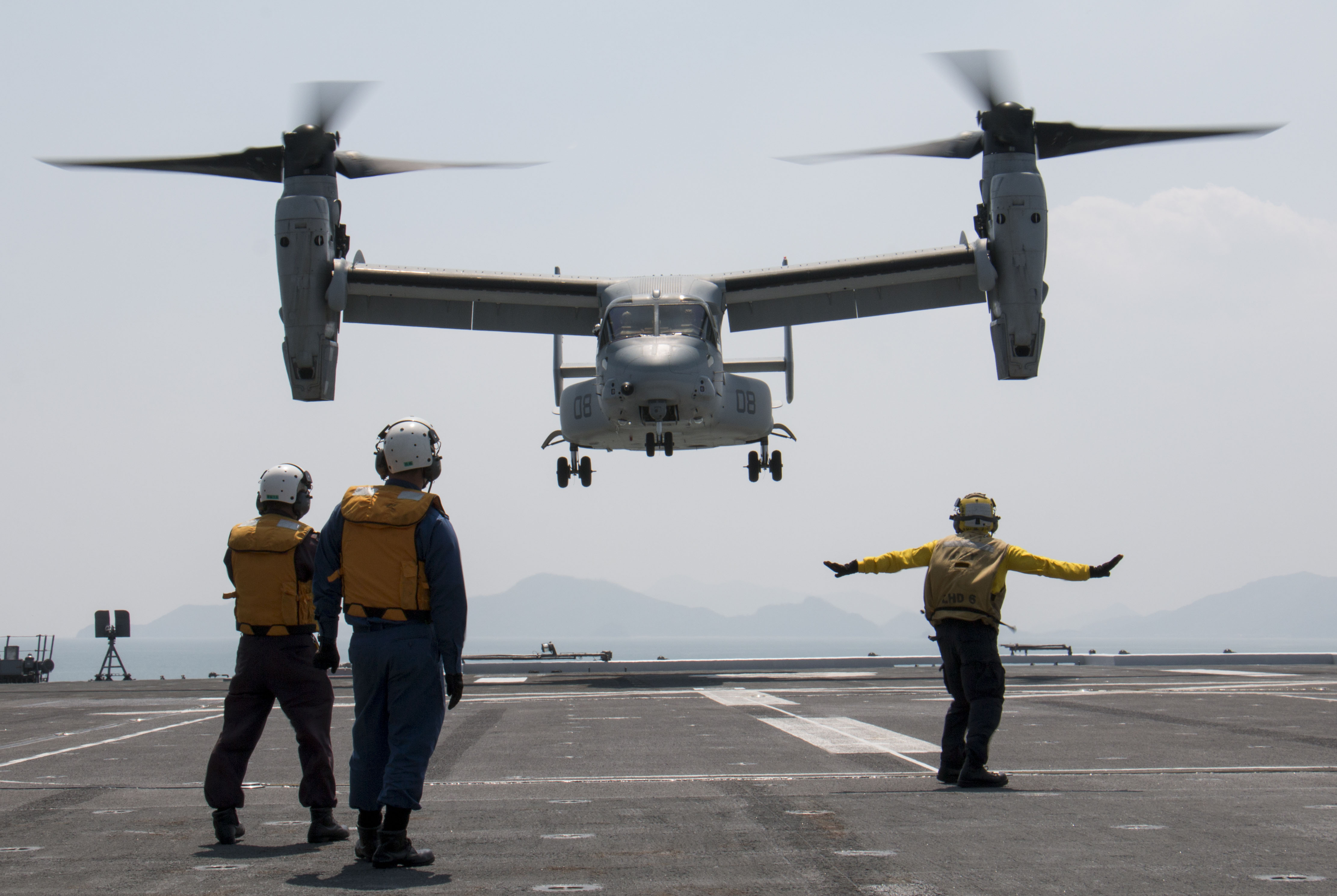 KUMAMOTO, Japan (April 19, 2016) An MV-22B Osprey aircraft from Marine Medium Tilitrotor Squadron (VMM) 265 attached to the 31st Marine Expeditionary Unit lands aboard JS Hyuga (DDH 181) in support of the Government of Japan's relief efforts following earthquakes near Kumamoto. The long-standing alliance between Japan and the U.S. allows U.S. military forces in Japan to provide rapid, integrated support to the Japan Self-Defense Force and civil relief efforts. (U.S. Navy Photo by Mass Communication Specialist 3rd Class Gabriel B. Kotico/Released) 160419-N-AE545-179 Join the conversation: navylive.dodlive.mil